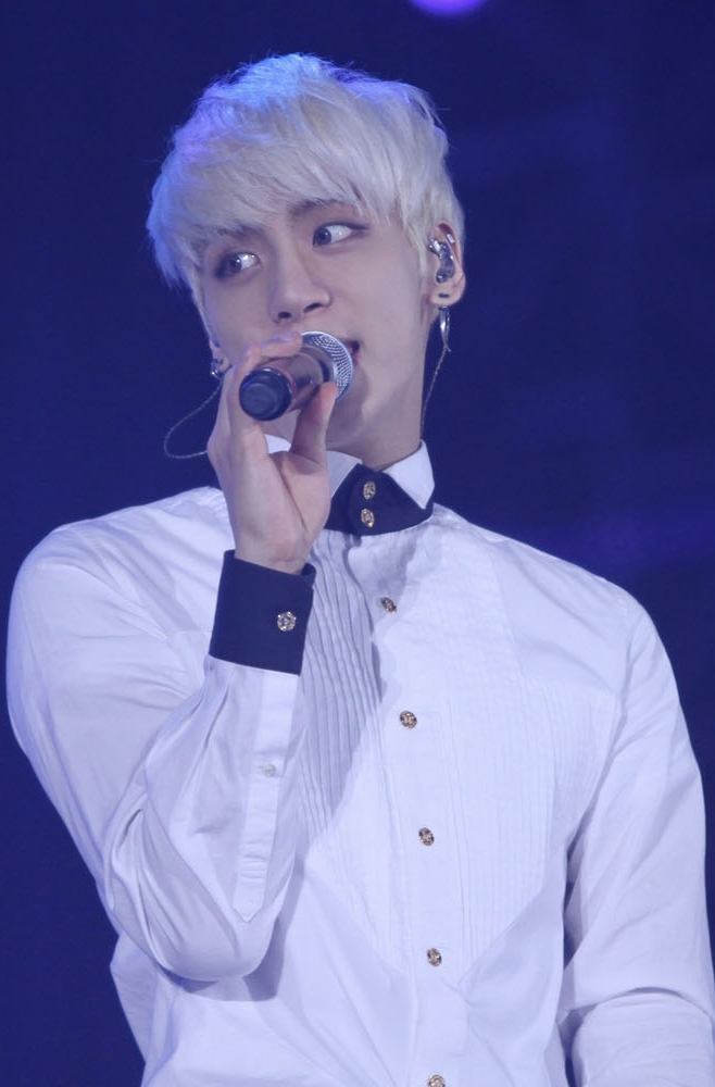 Jonghyun at the SMTown Week on December 21, 2013.